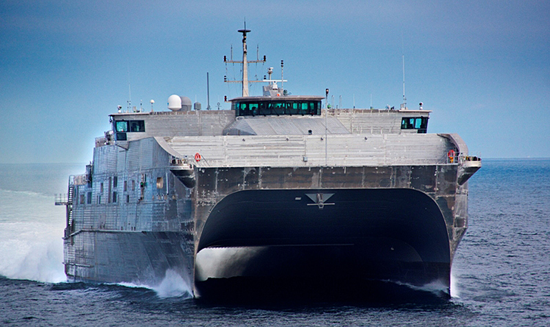 USNS Spearhead (JHSV-1) during sea trials